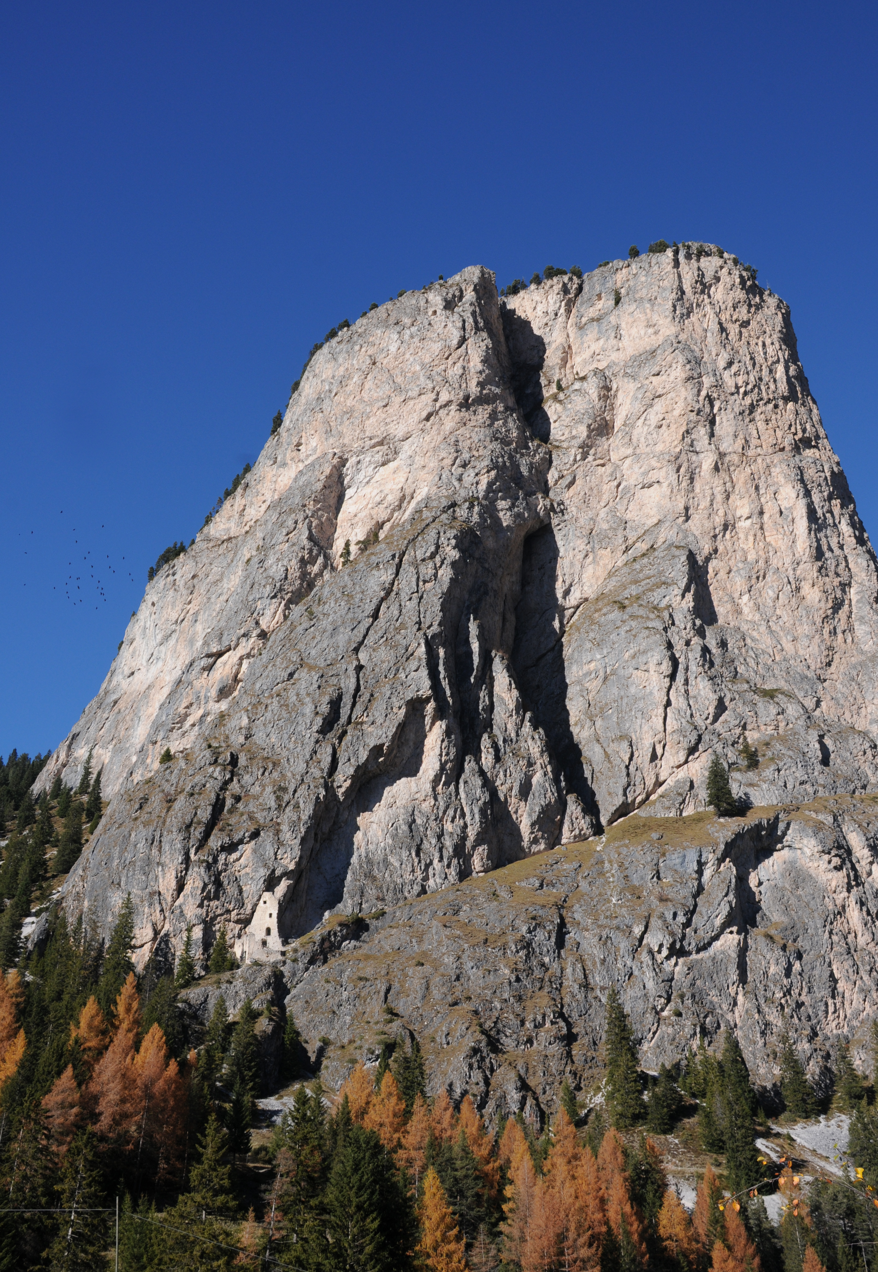 A Stevia tower and Castle Wolkenstein in Val Gardena